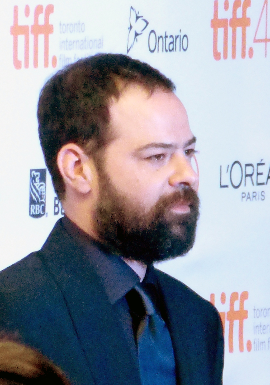 Rory Cochrane at the premiere of Black Mass, 2015 Toronto Film Festival